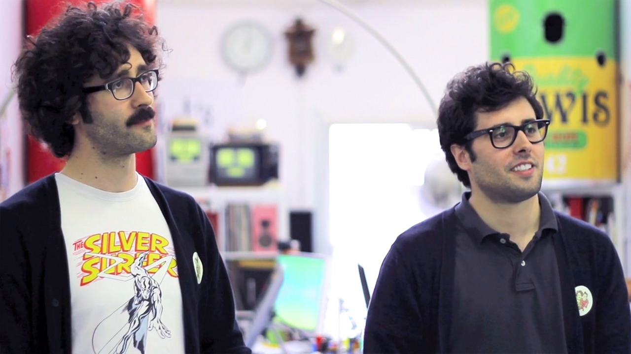 FFF Interview - Brosmind